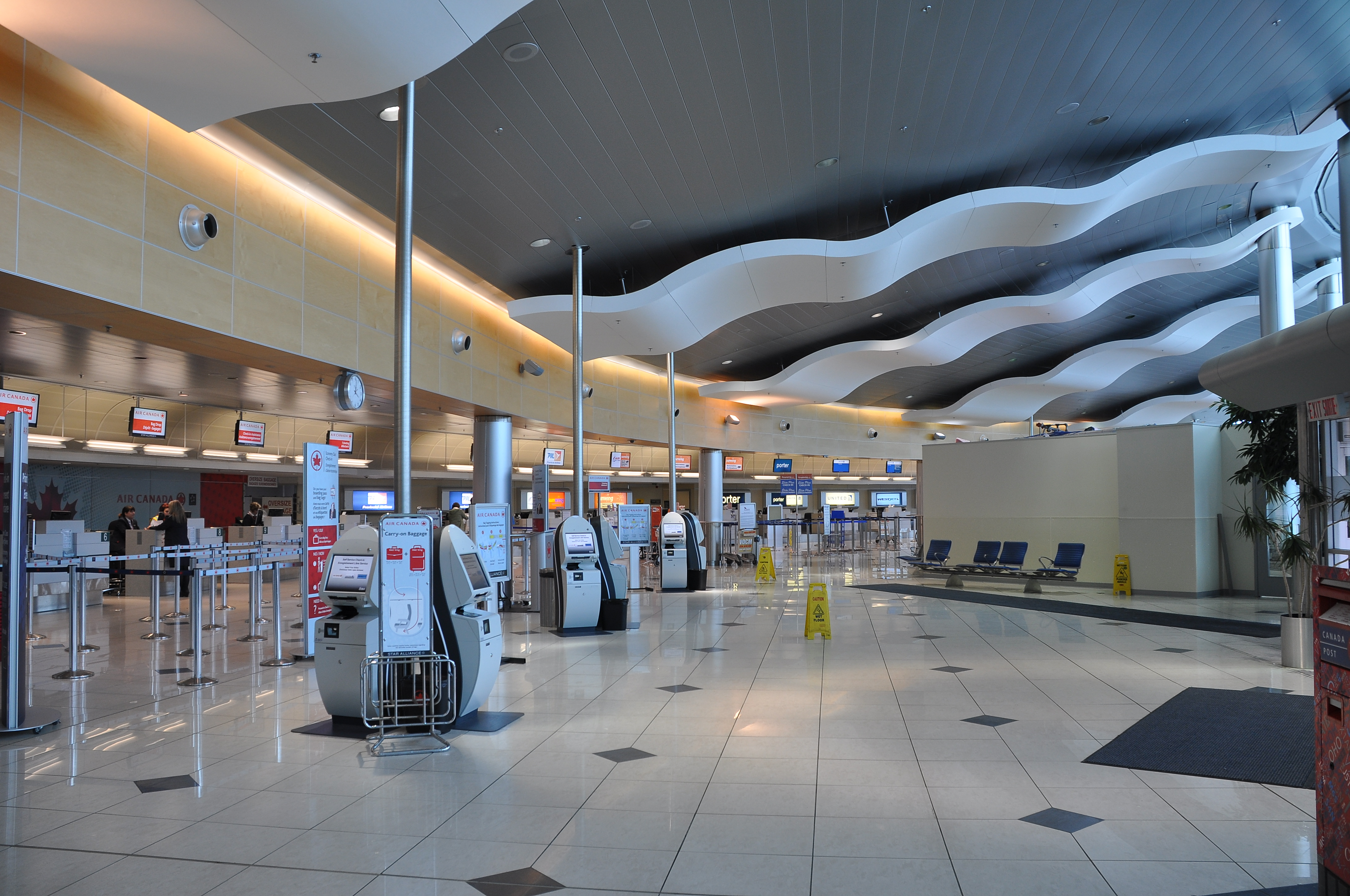 Check-in areas in St. John's airport. (St. John's, Newfoundland and Labrador, Canada, June 2015)